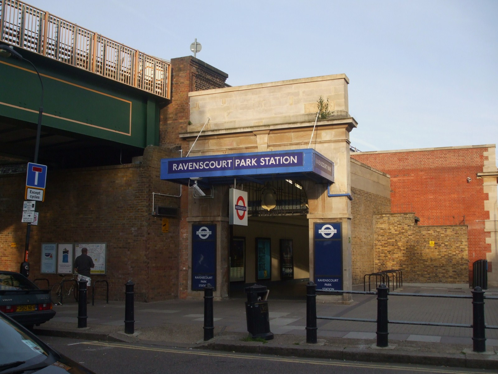 Ravenscourt Park tube station main entrance